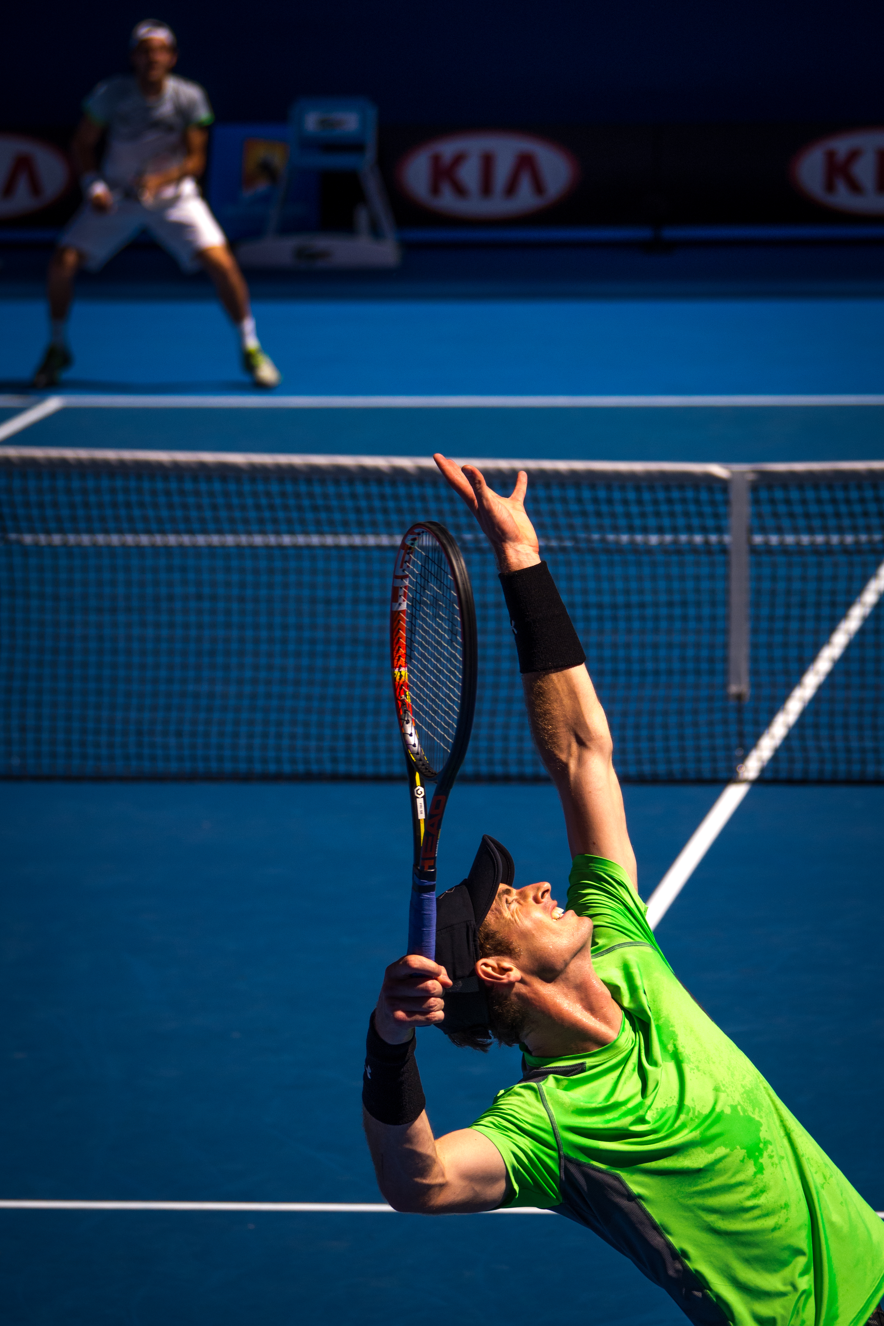 Andy Murray (GBR)[6] during his 3rd round straight-sets win over Joao Sousa (POR) at the 2015 Australian Open in Hisense Arena.